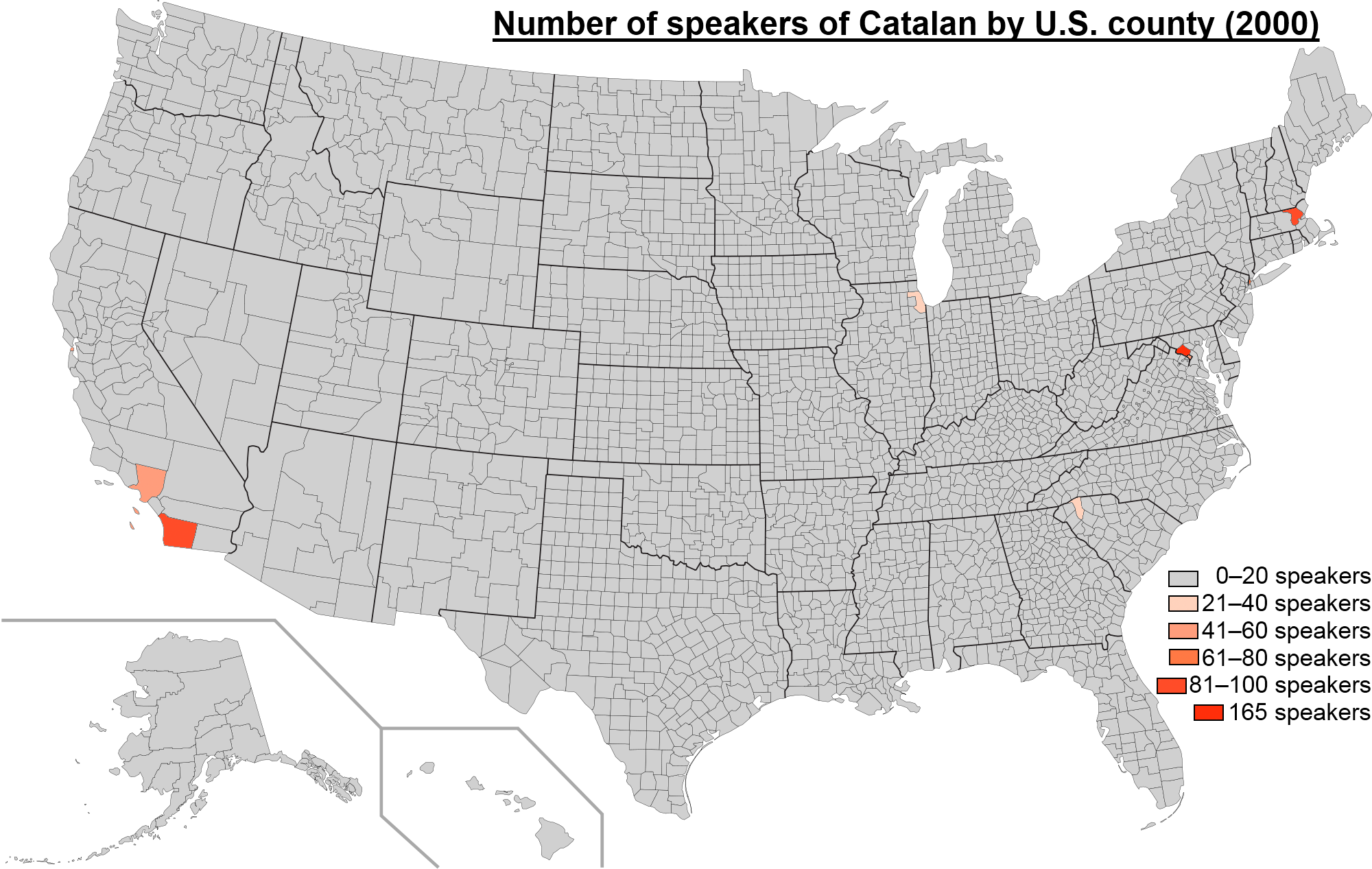 Map of the United States by county with the number of speakers of the Catalan language according to the 2000 United States Census.